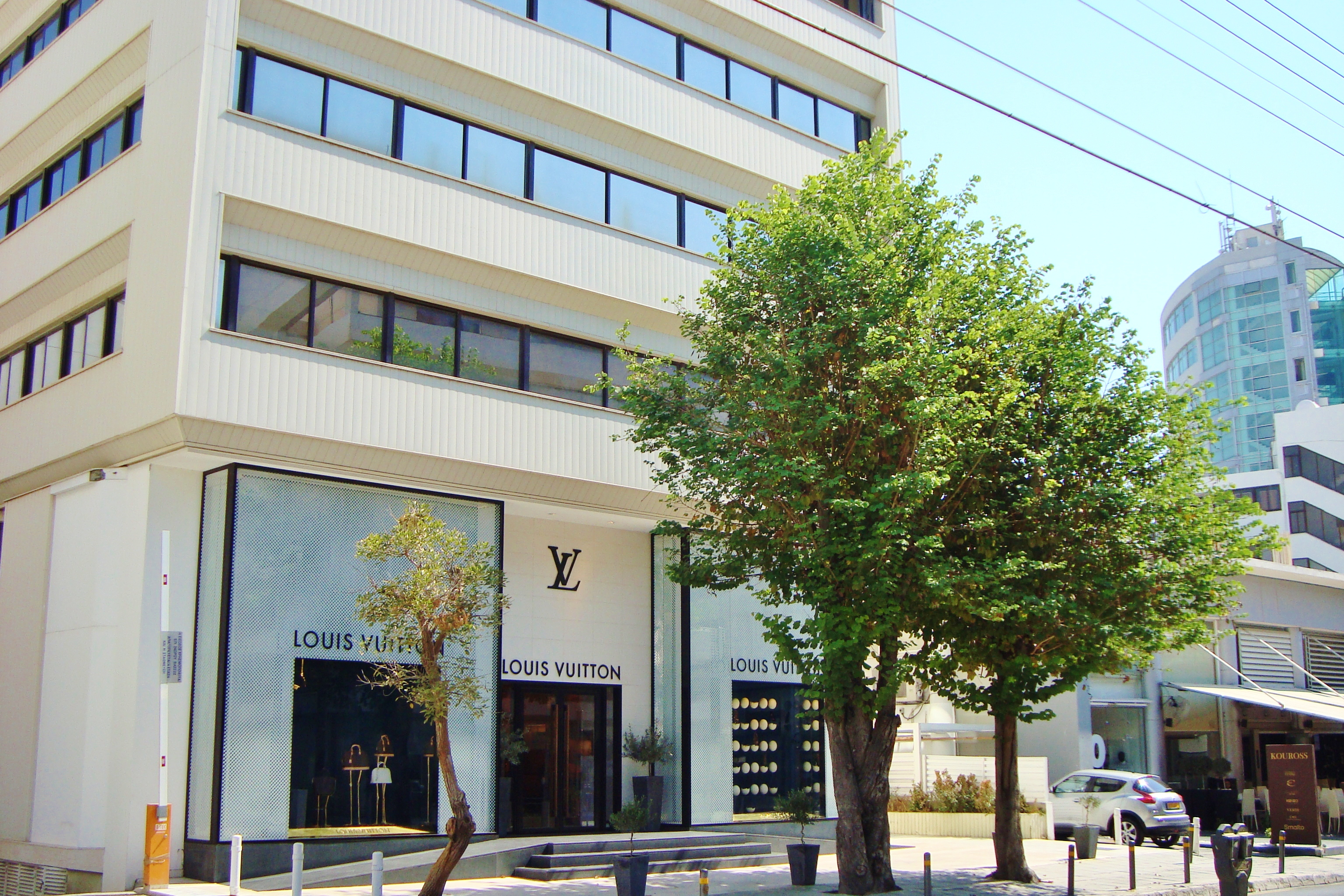 Louis Vuitton official store in Stasikratous street in Nicosia Republic of Cyprus